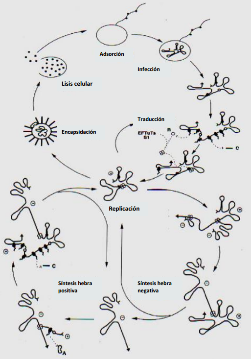 Ciclo viral del bacteriófago Qβ